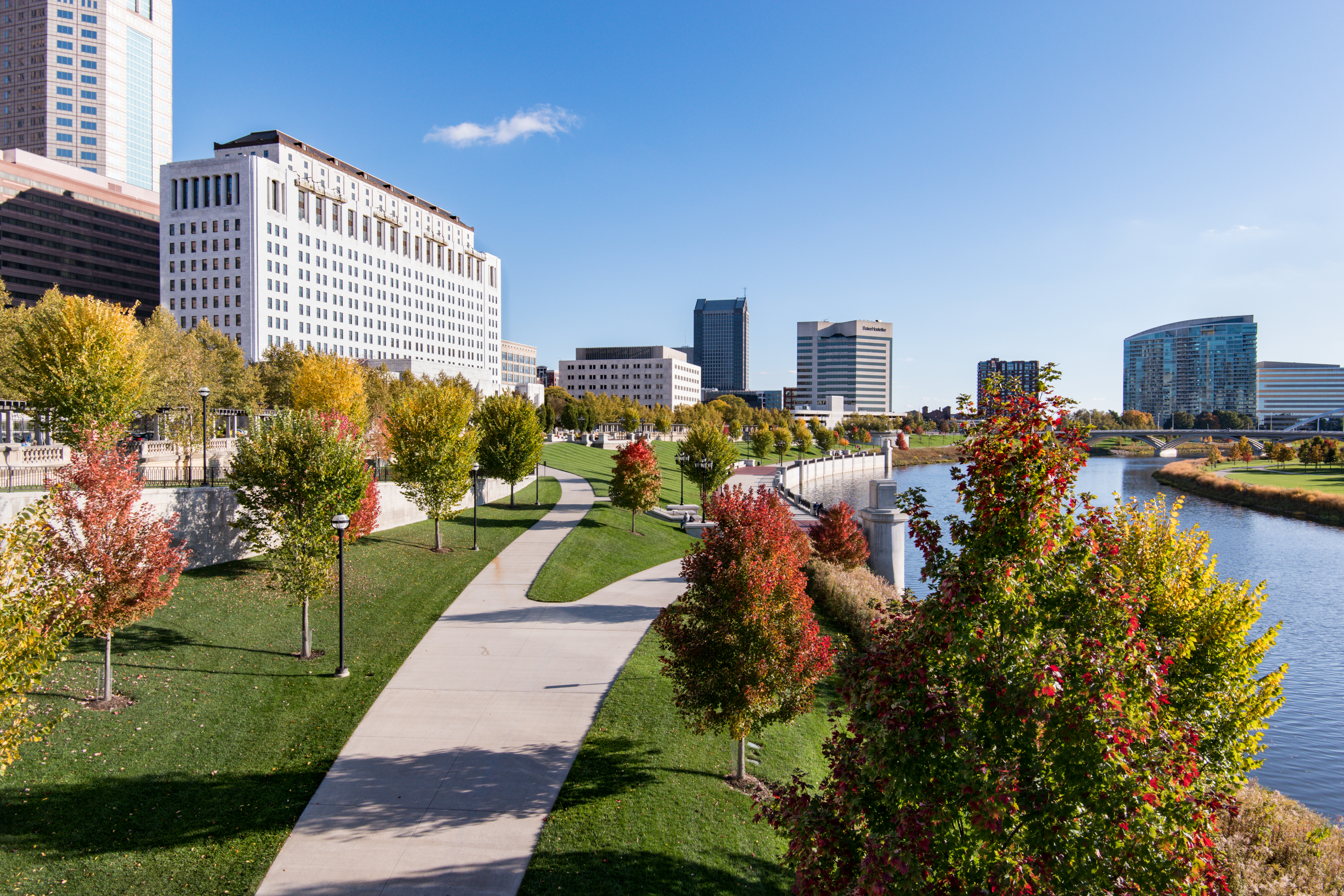 The Scioto Mile around downtown Columbus and Franklinton.